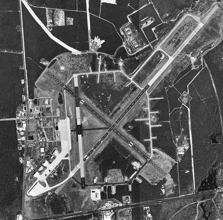 Aerial image of Suffolk County Airport, New York